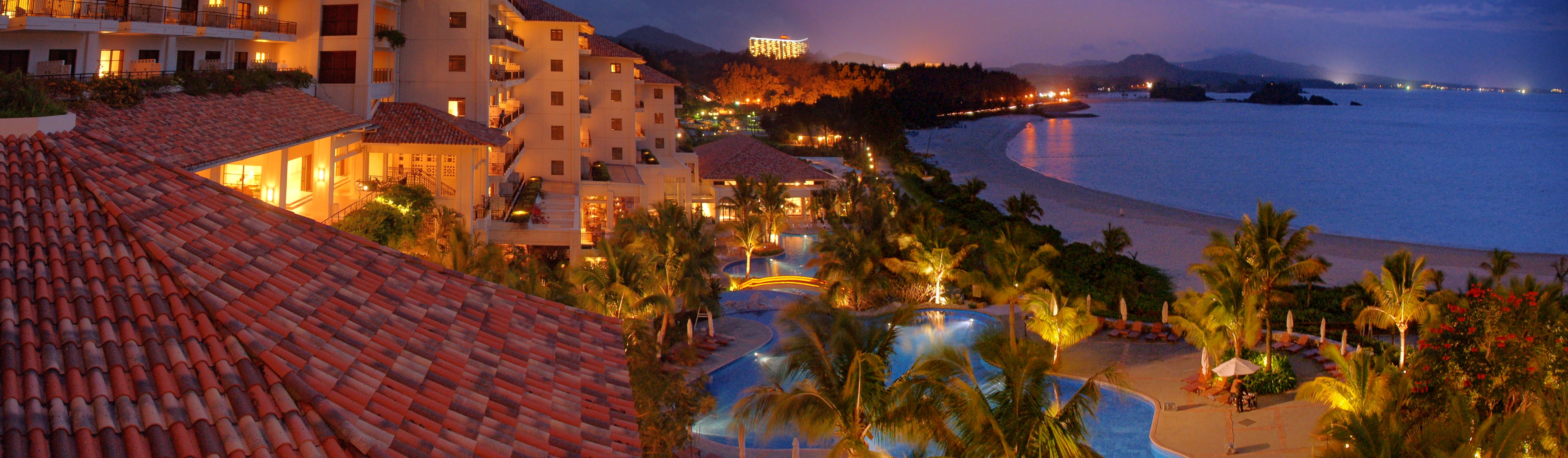 The Busena Terrace, Nago, Okinawa prefecture, Japan